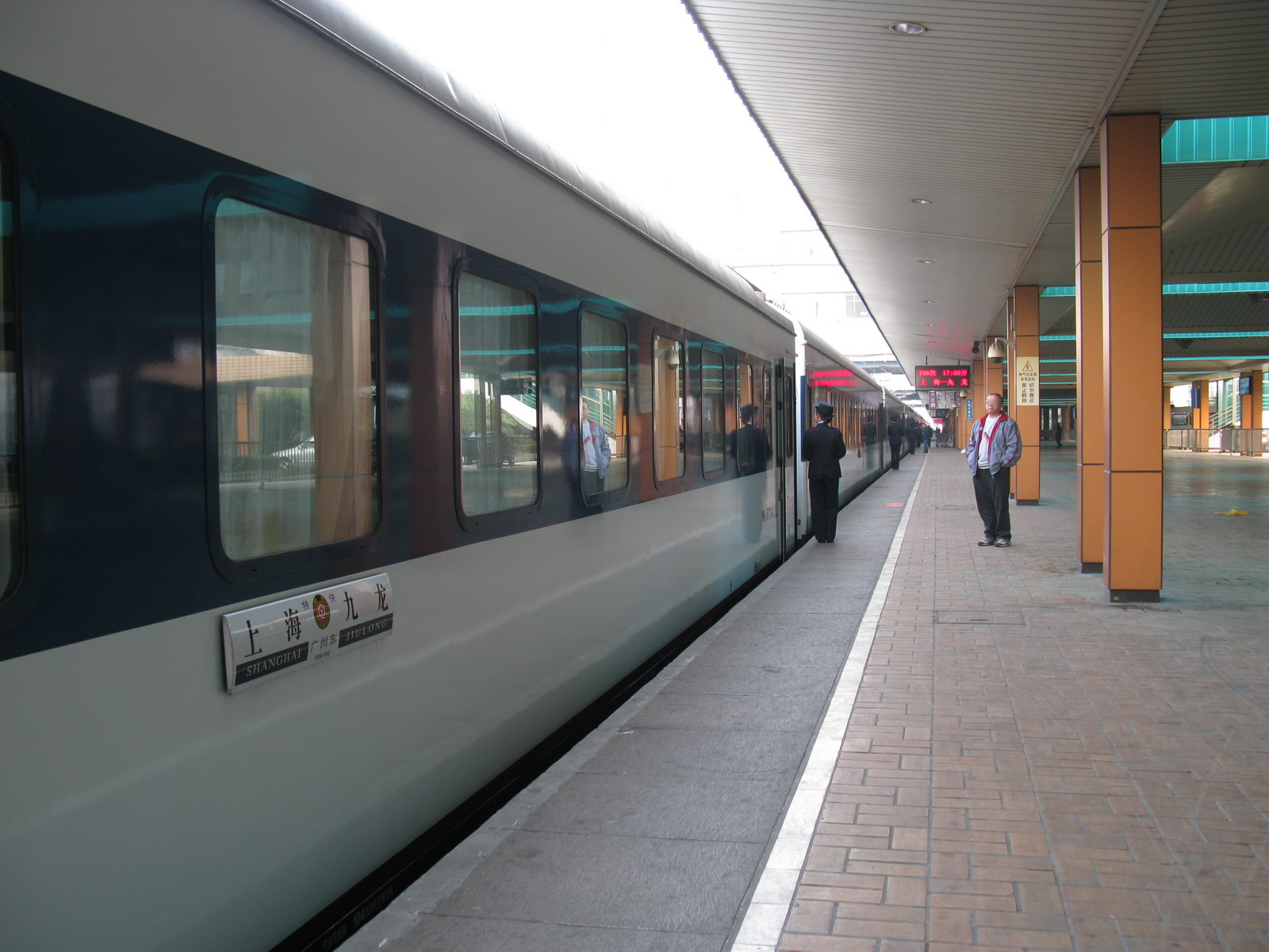 Shanghai-Kowloon Through Train (T99 & T100) 25T Train. Photo was taken at Shanghai Railway Station.